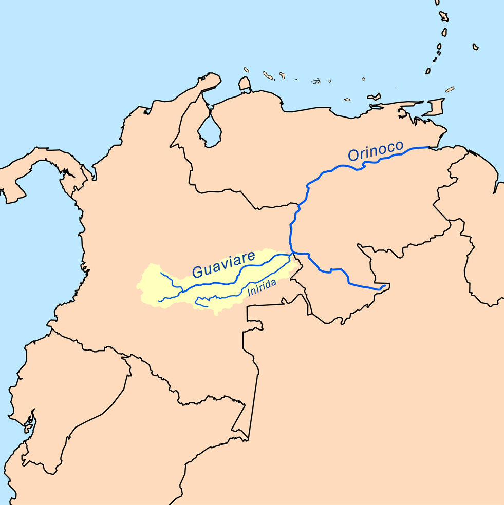 This is a map of the Guaviare River drainage basin.